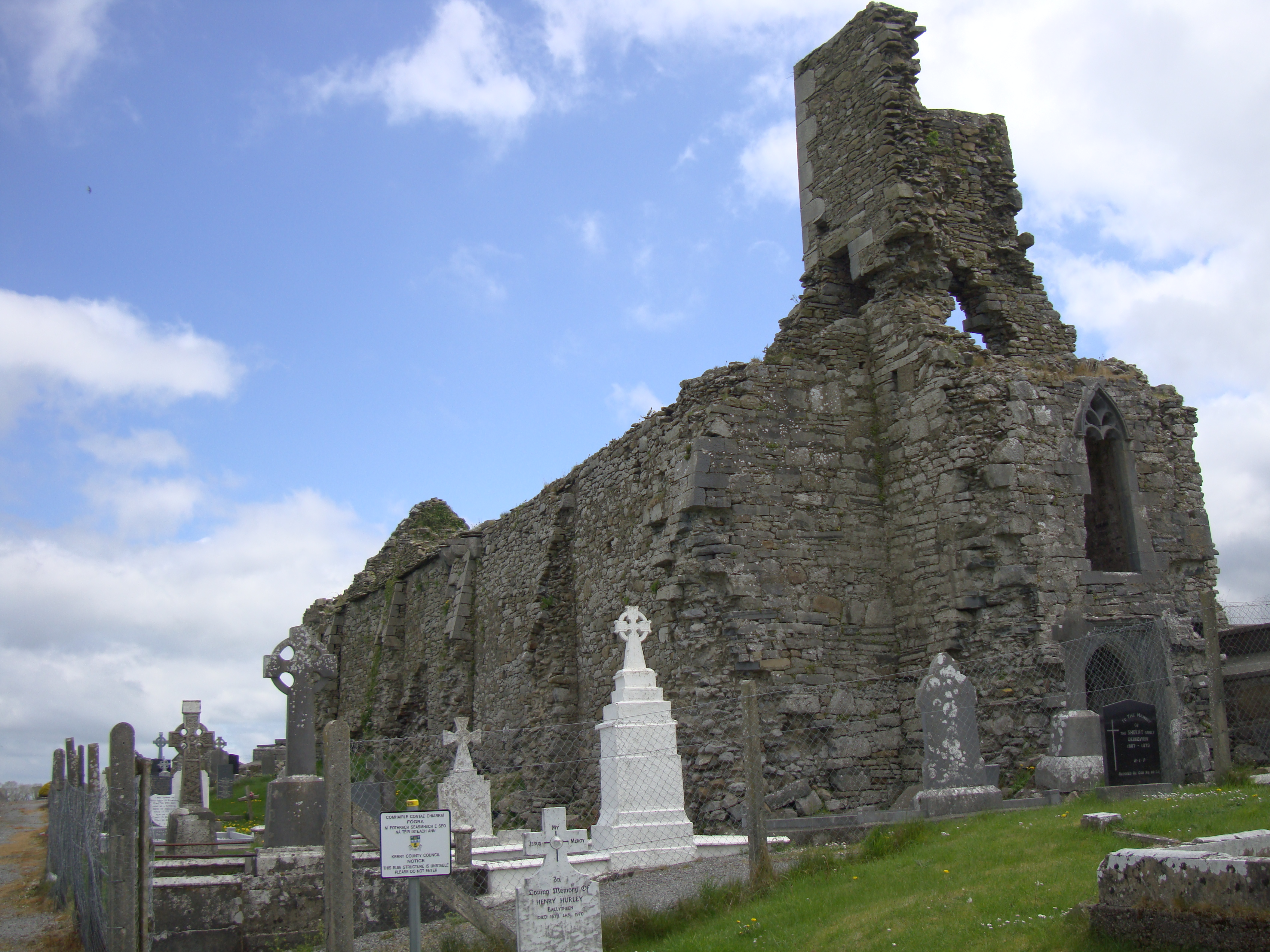 Photograph of the remains of Abbeydorney Abbey, Co. Clare, Ireland